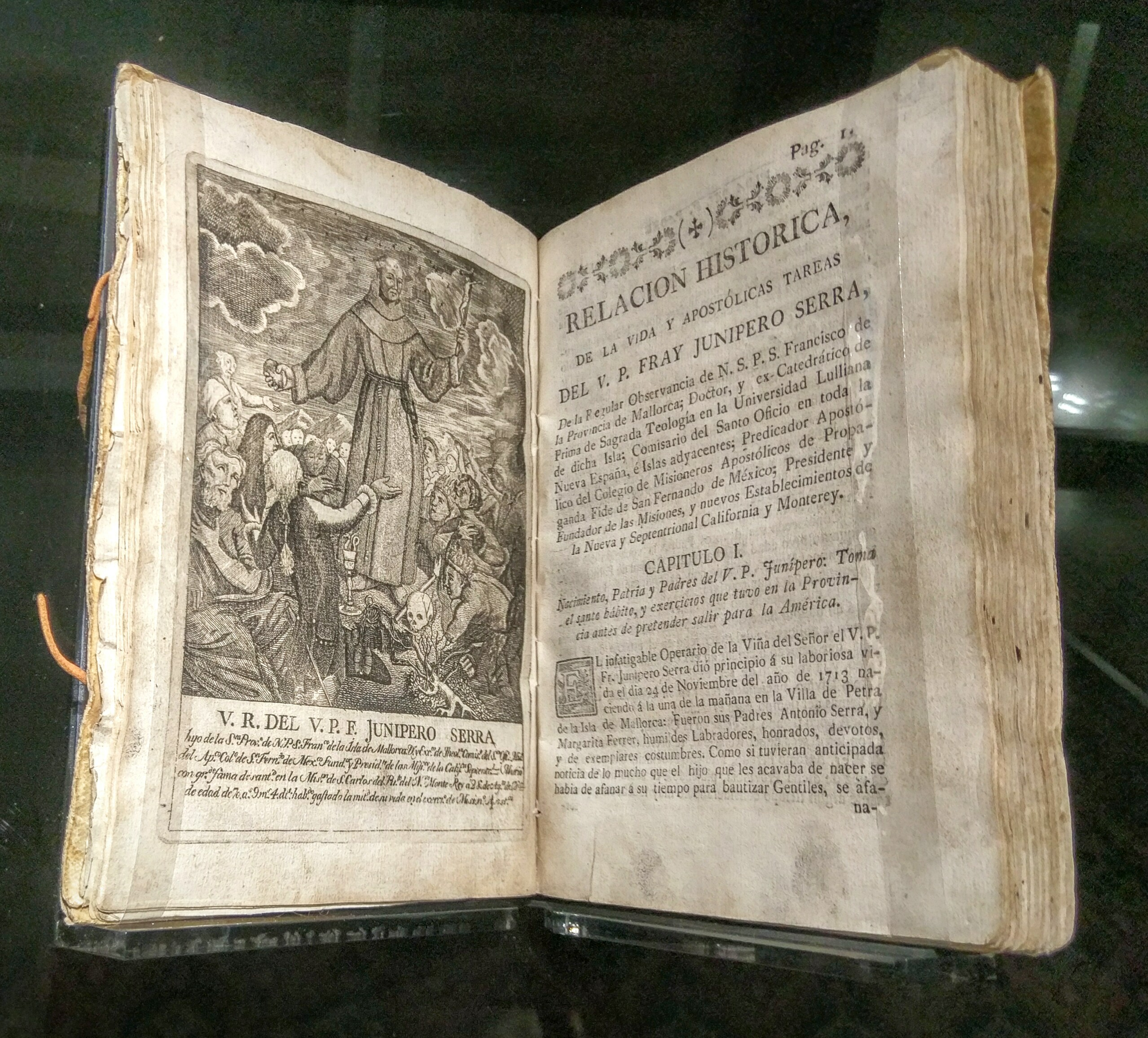 The title pages of Francisco Palou's biography of Junipero Serra, published in 1896. Book owned by the California State Library. Photo by Jim Heaphy.